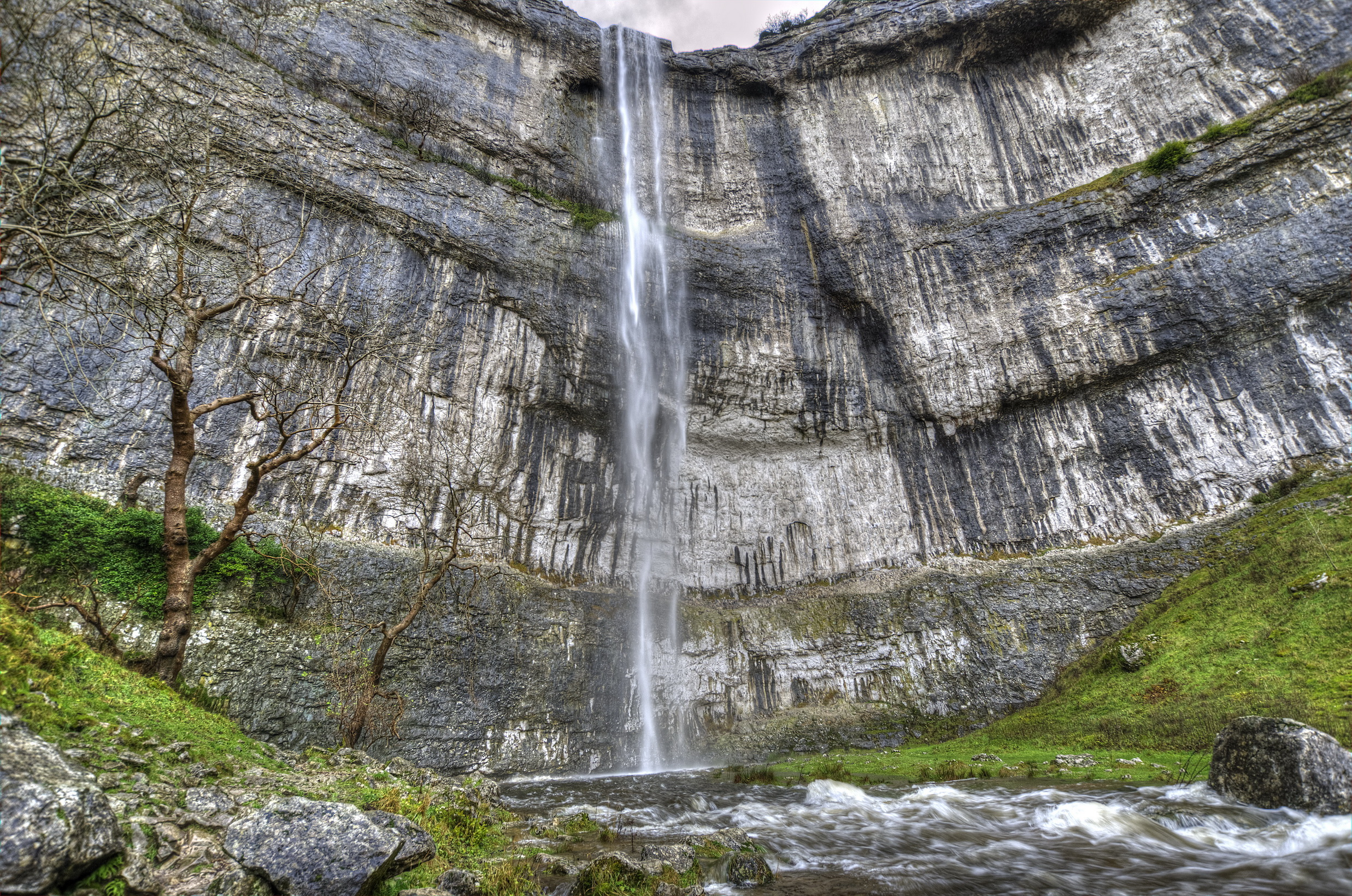 Malham Cove's first Waterfall in over 200 years